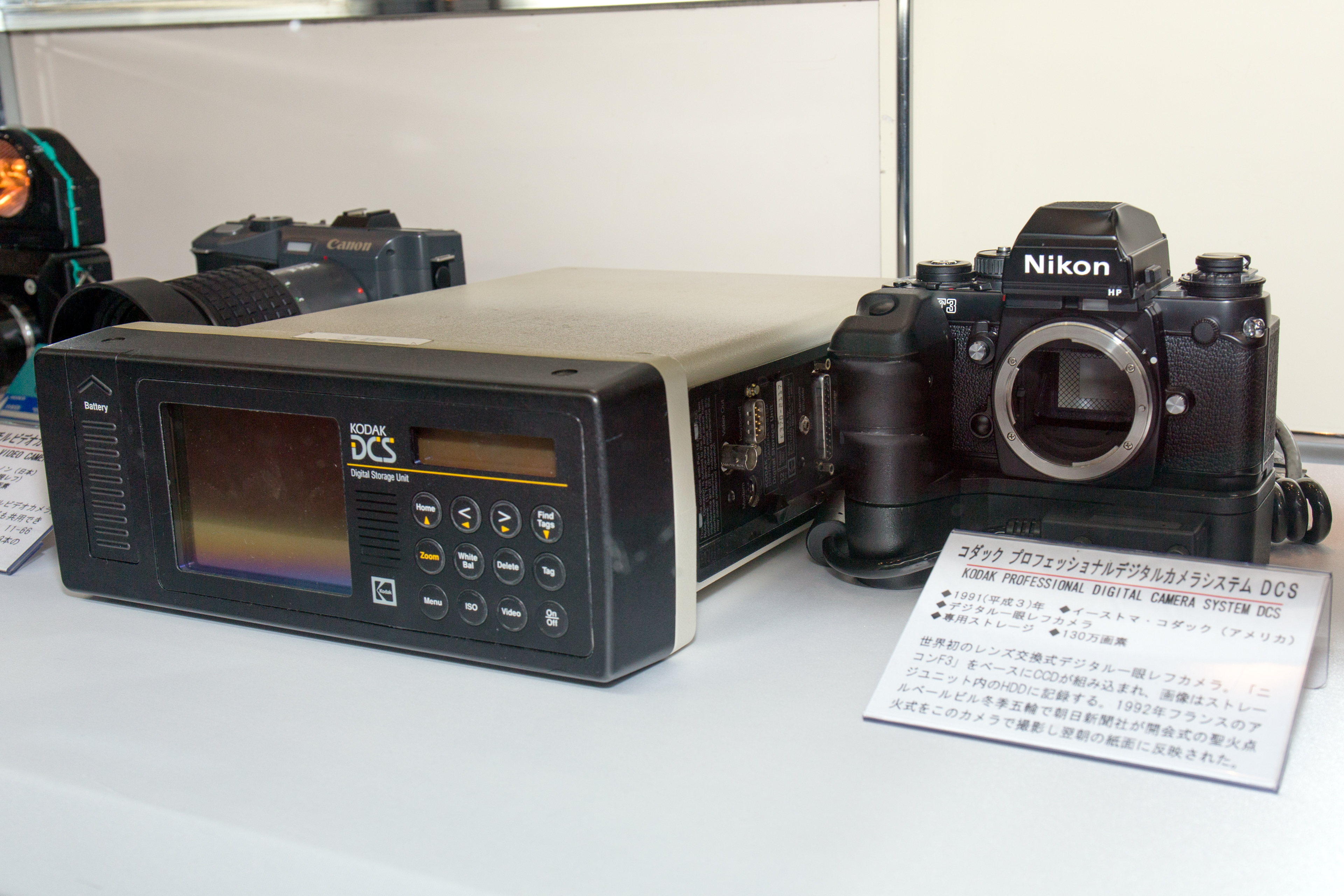 CP+ 2014: 1991 Kodak DCS system and Nikon F3